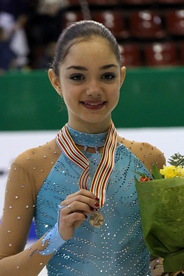 Evgenia Medvedeva at the Junior World Championships 2014 - Awarding ceremony